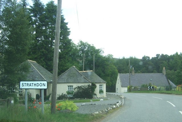 Approach to Strathdon On A944 from Roughpark. Toll House on the left; Bridgeview on the right.